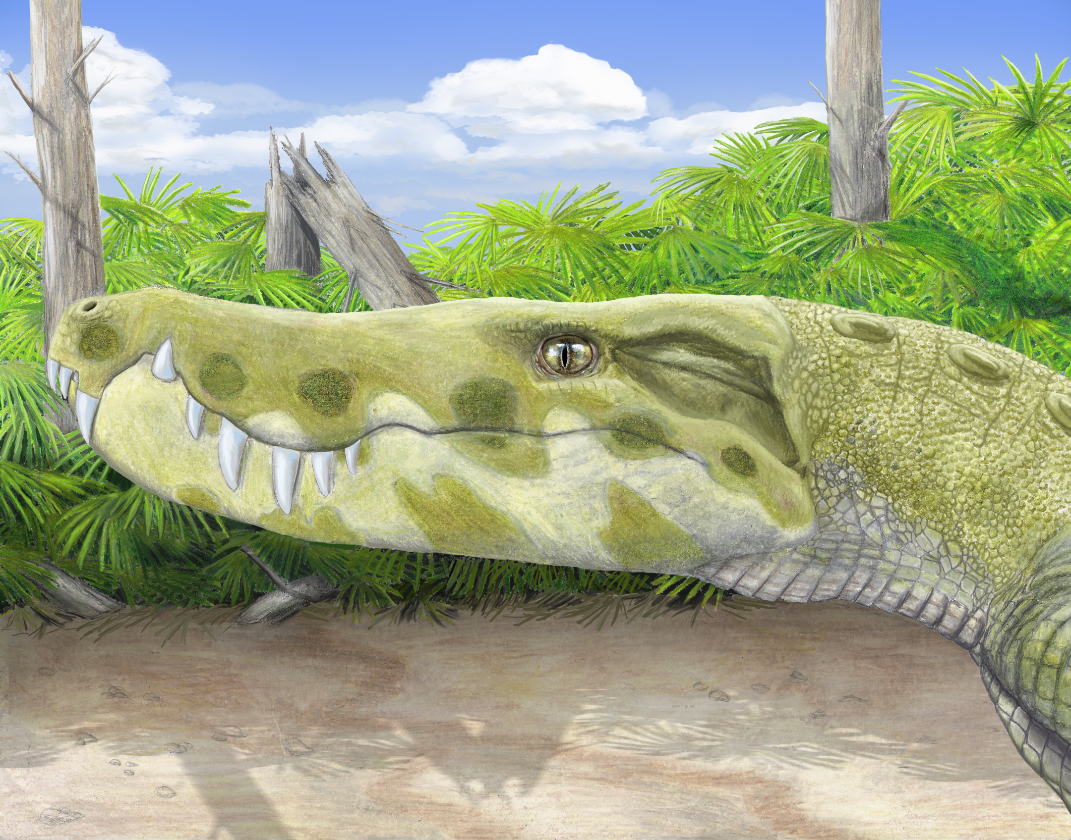 Life restoration of Stratiotosuchus maxhechti. Based on figure 2 of "Baurusuchid crocodyliforms as theropod mimics: clues from the skull and appendicular morphology of Stratiotosuchus maxhechti (Upper Cretaceous of Brazil)" by Douglas Riff and Alexander Wilhelm Armin Kellner (Zoological Journal of the Linnean Society 163 (s1): S37–S56).